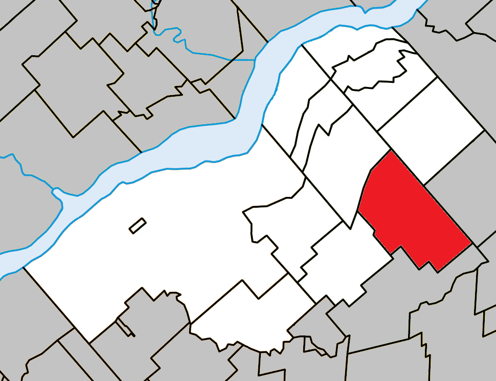 Location of Manseau, Quebec within Bécancour Regional County Municipality.